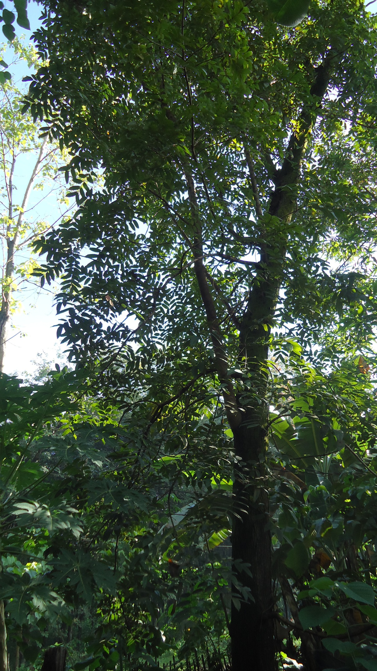 Narra tree (Pterocarpus indicus)